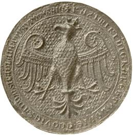 Seal of Casimiar III of Poland